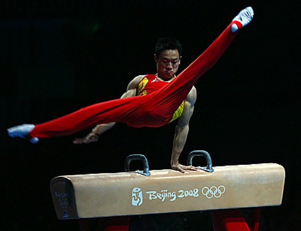 Chinese gymnast during the Bijing 2008 Olympiads.